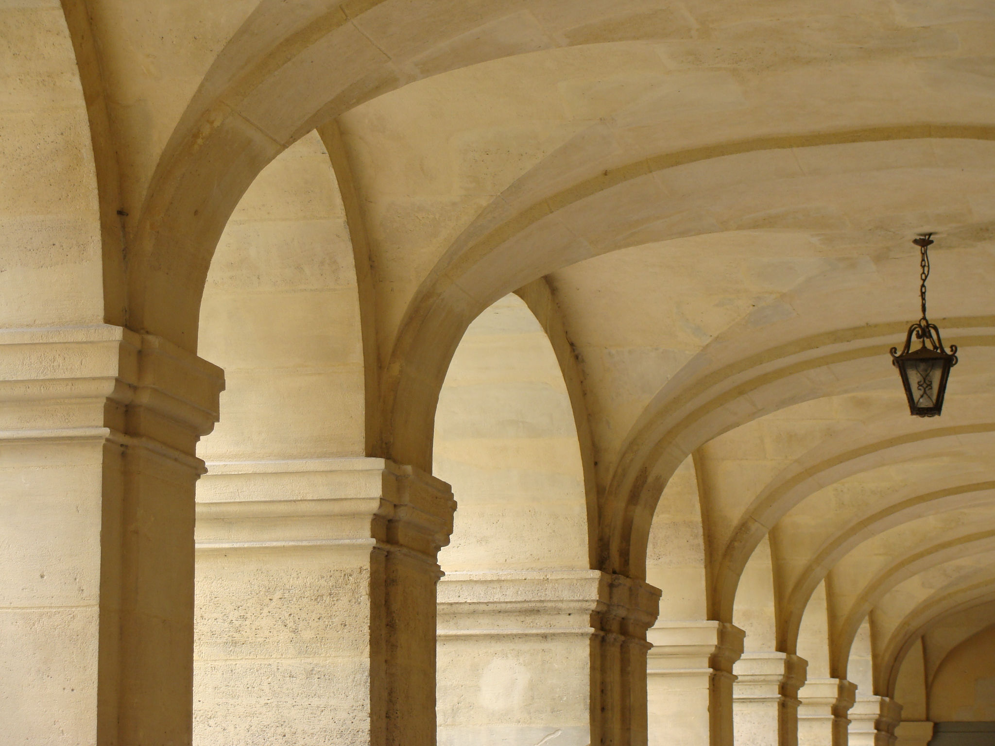 Part of the vault of the cloister, inside the "Lycée Henri IV", Paris, France